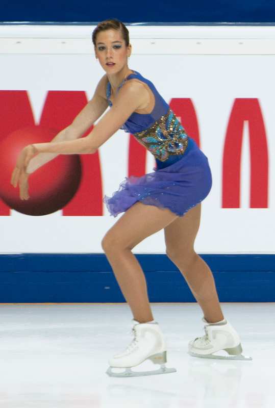 2012 Cup of Russia, short program.